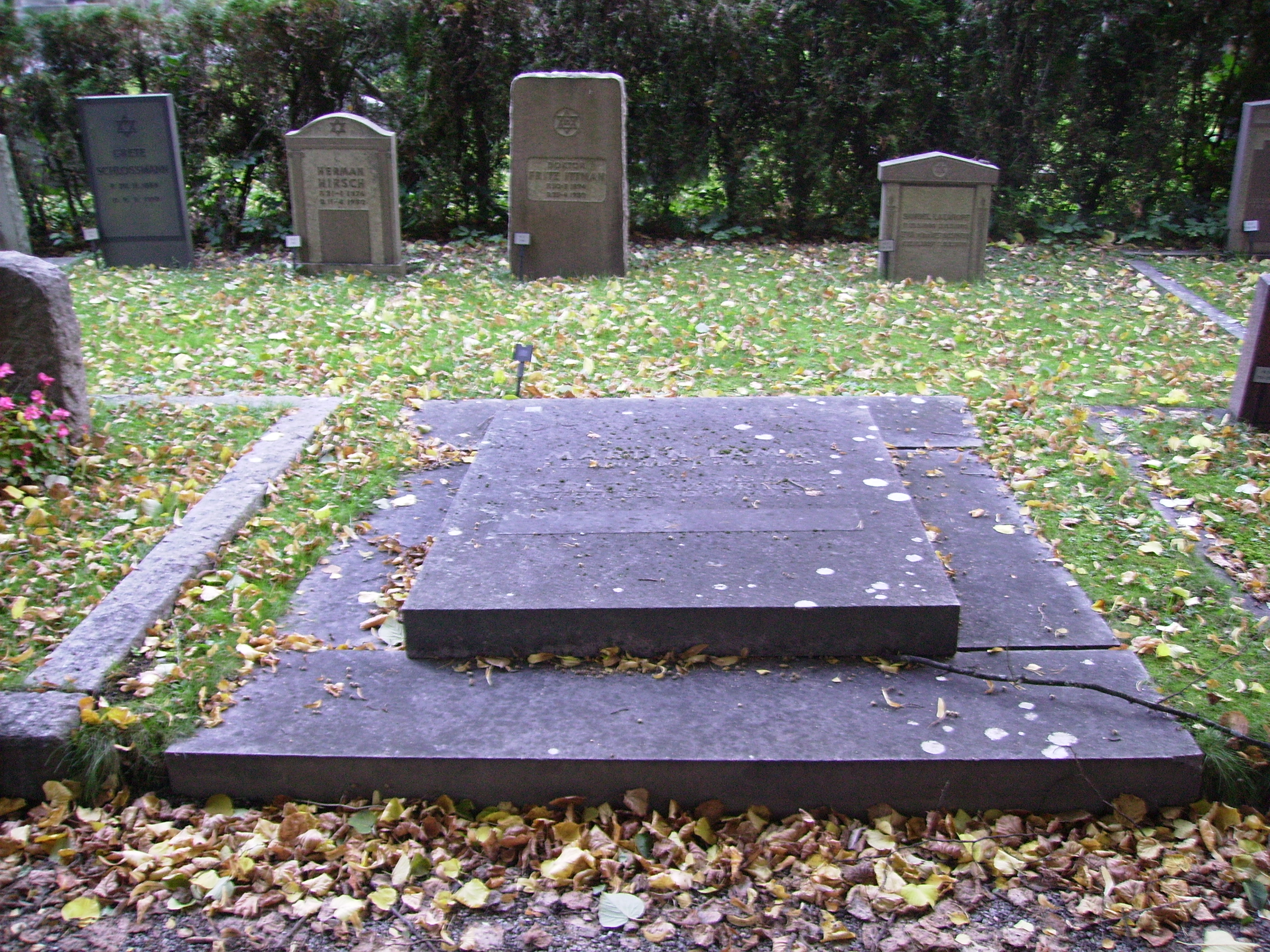 Picture of Martin Lamm's grave at Norra begravningsplatsen in Solna